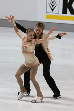 Joanna Sulej / Mateusz Chruściński at the 2009 Nebelhorn Trophy.